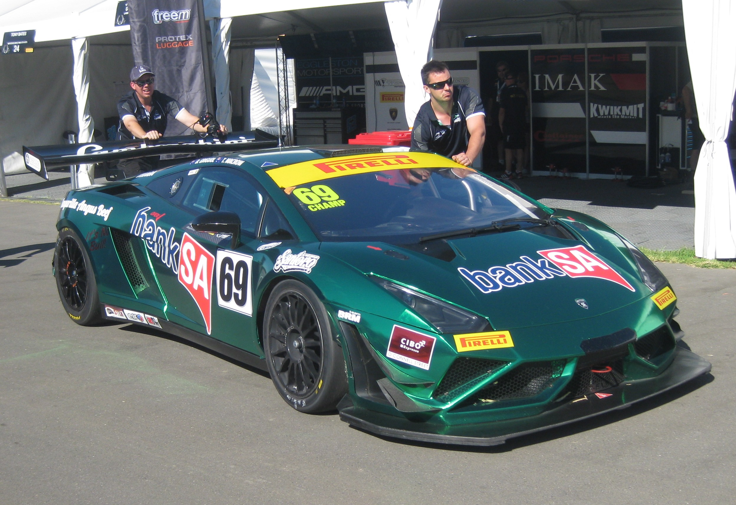 Lamborghini Gallardo R-EX of Brenton Griguol & Tim Macrow at the Adelaide Parklands Circuit for the opening round of the 2017 Australian GT Championship.